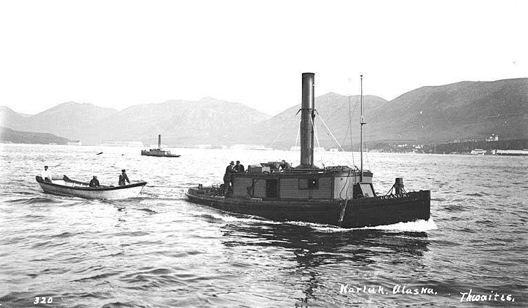 Caption on image: Karluk, Alaska PH Coll 247.131 Subjects (LCTGM): Uganuk (Tugboat); Boats--Alaska--Karluk Subjects (LCSH): Tugboats--Alaska--Karluk; Karluk River (Alaska)